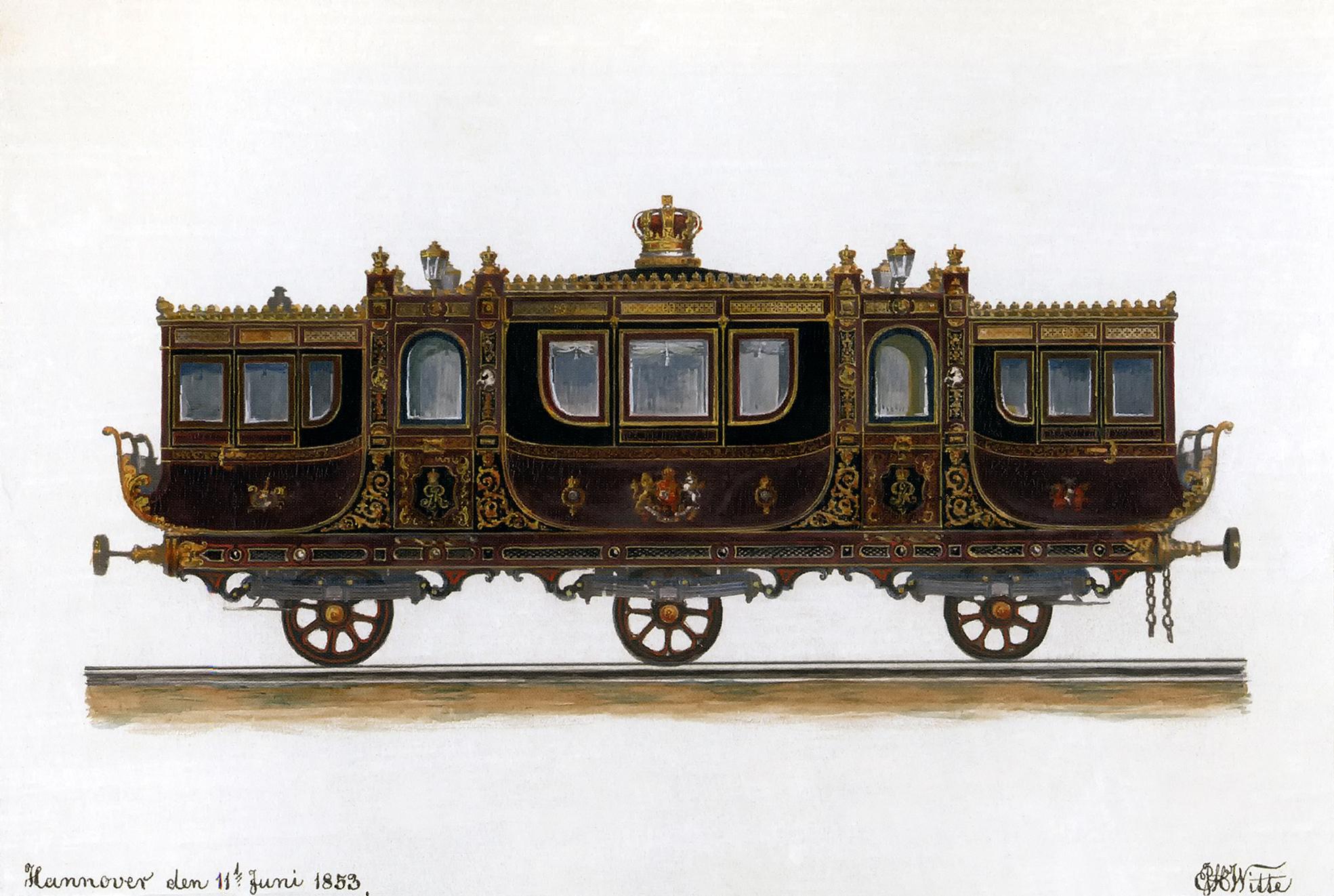 Railway carriage of George V of Hanover.